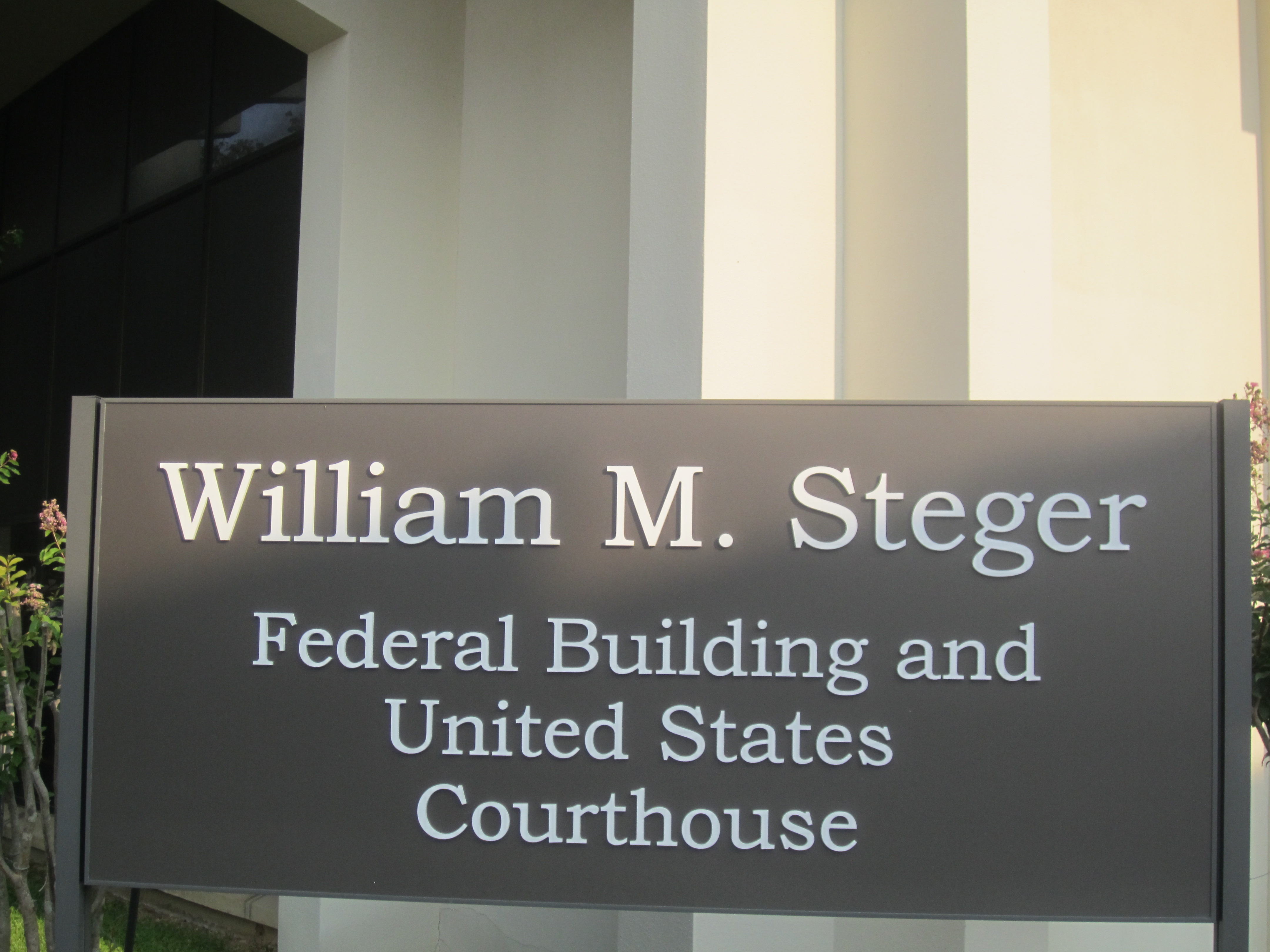 I took photo with Canon camera in Tyler, TX.